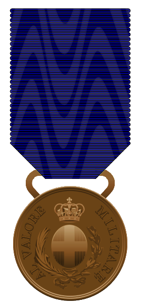 Italian al valor militare (military valour) bronze medal (Kingdom of Italy)